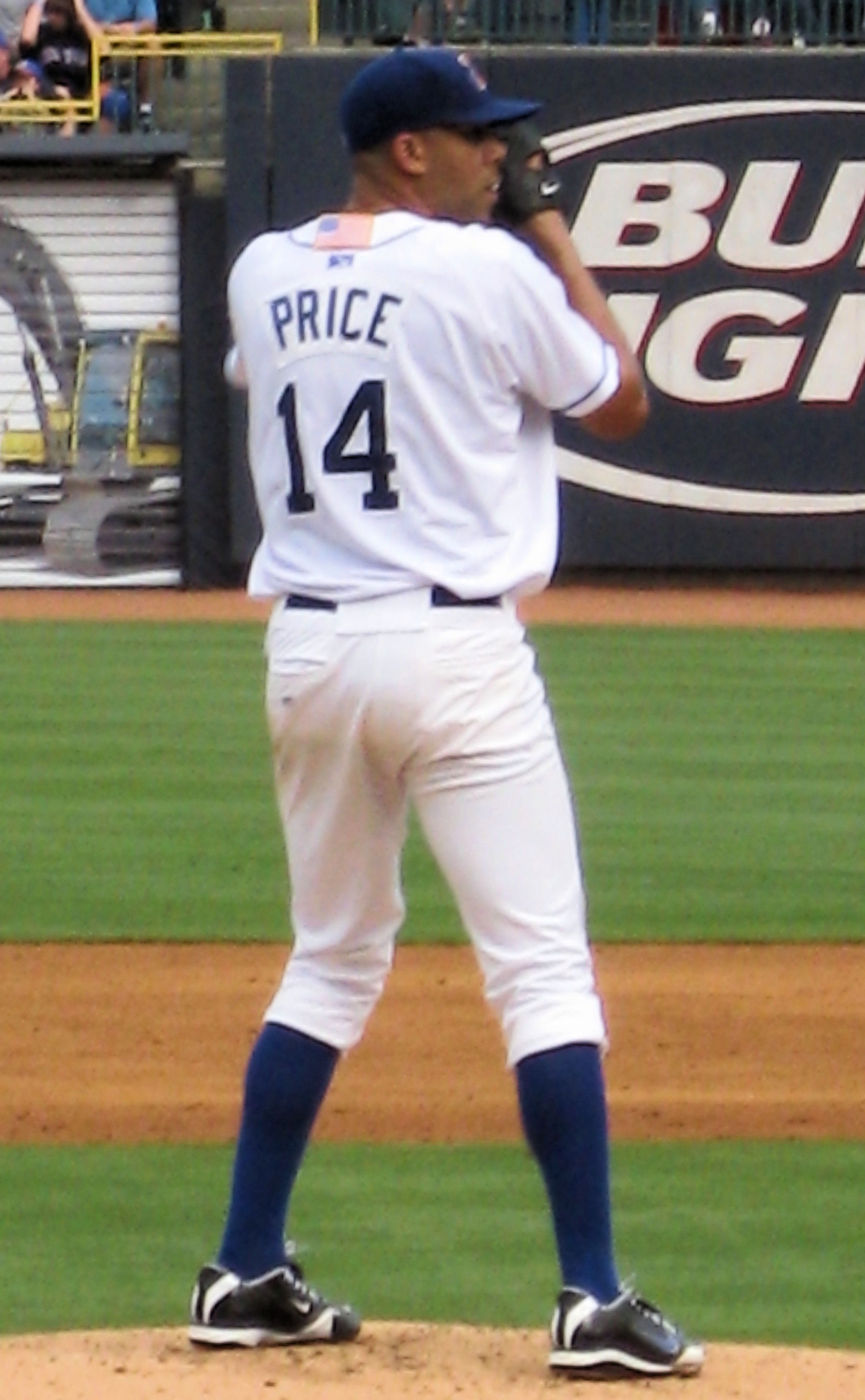 David Price